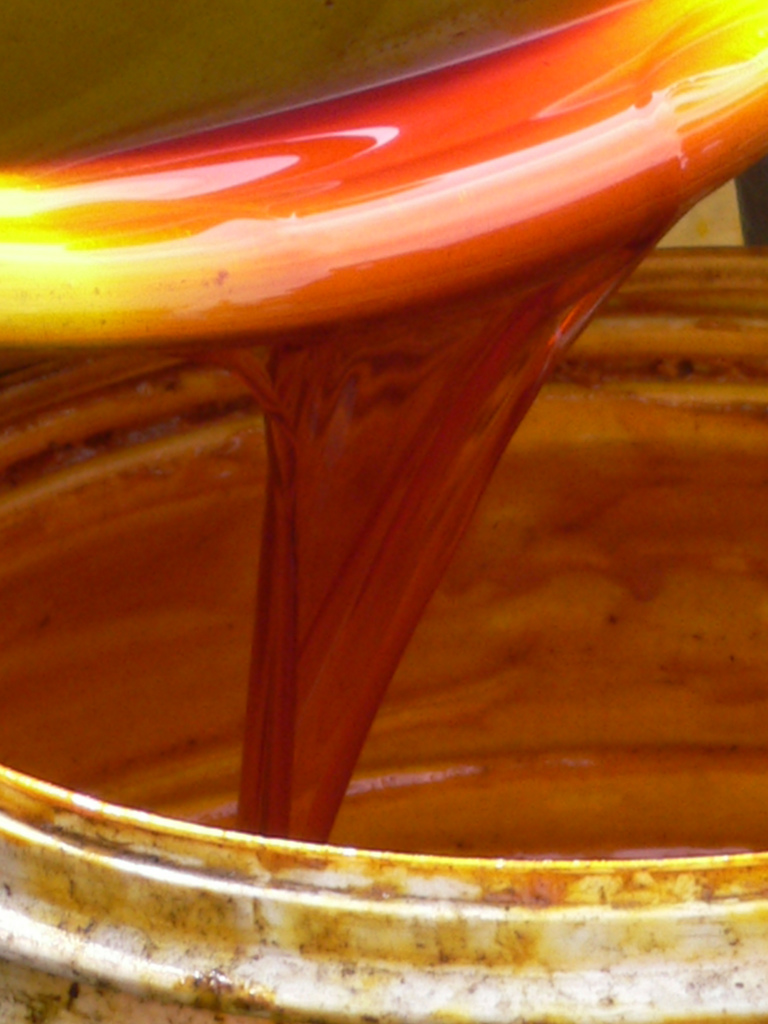 Pure palm oil - production from rural Jukwa village, Ghana.